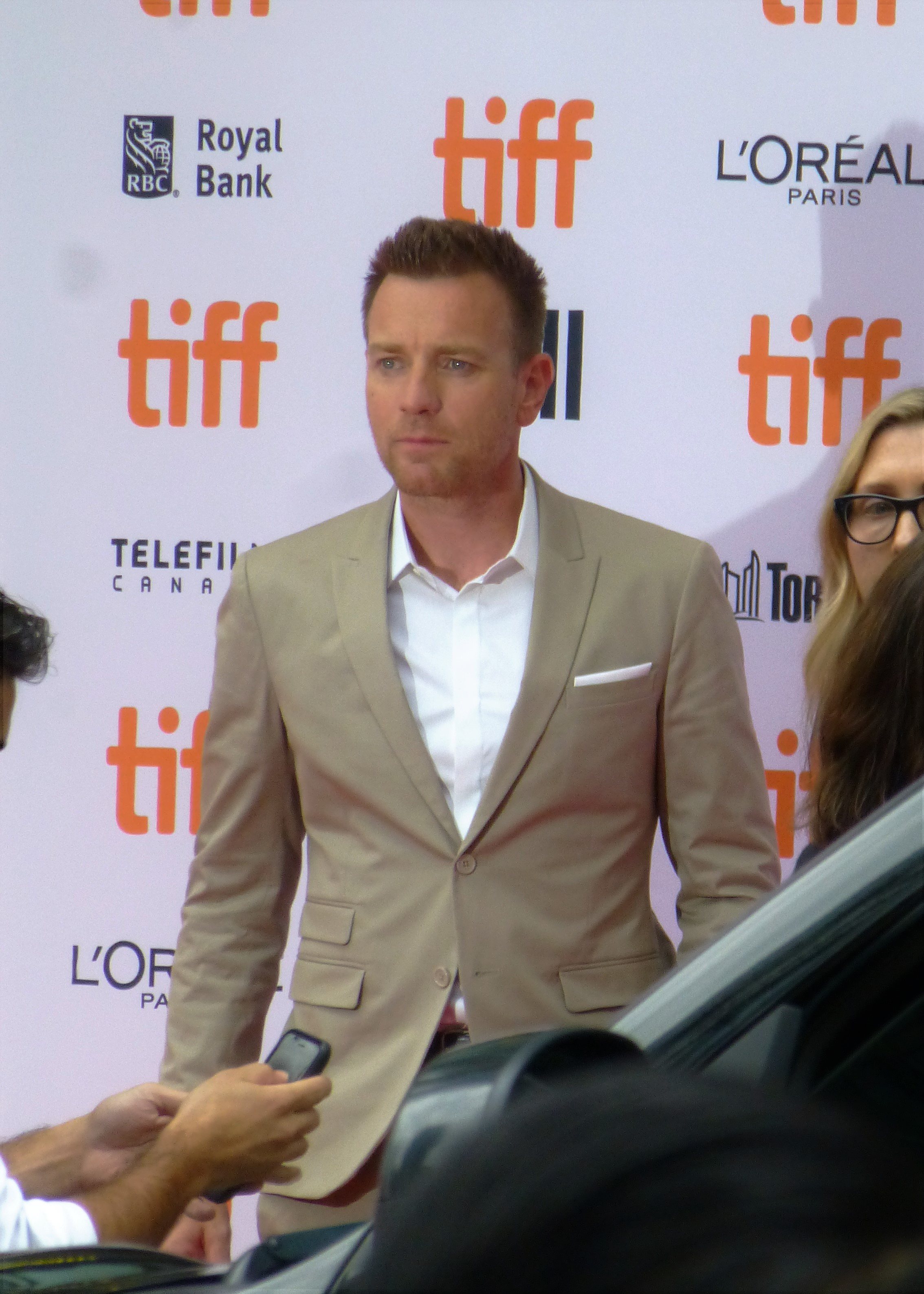 Ewan McGregor at the premiere of American Pastoral, 2016 Toronto Film Festival